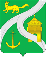 Coat of arms of Ust-Kut city (2009)